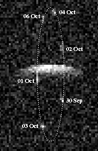 A composite of images of 2000 DP107 obtained at Arecibo Observatory in September-October 2000. The frame is 5.8 km vertically, with distance from the observer increasing downward, and 12.2 Hz horizontally, with Doppler frequency or line-of-sight velocity increasing to the right. Rotation and revolution appear counterclockwise. The illuminated front of a roughly spherical primary is visible, as well as the satellite at different phases of the orbital cycle. In this image the satellite appears much smaller than the primary because its spins more slowly. The actual size ratio is about 8 to 3. Also, the orbit appears elliptical in this image, but it is actually circular in space.